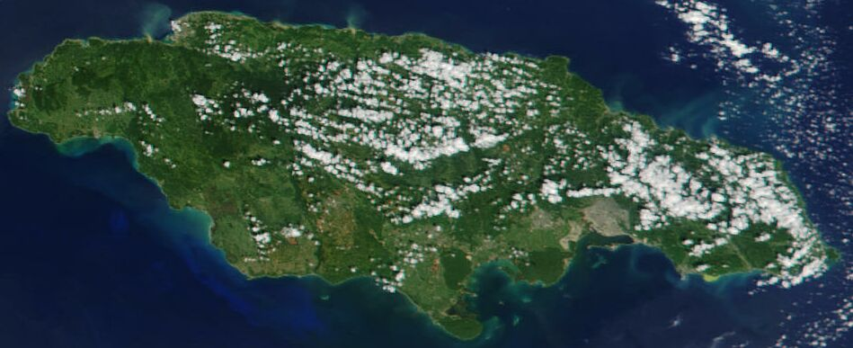 Satellite image of Jamaica in November 2001.